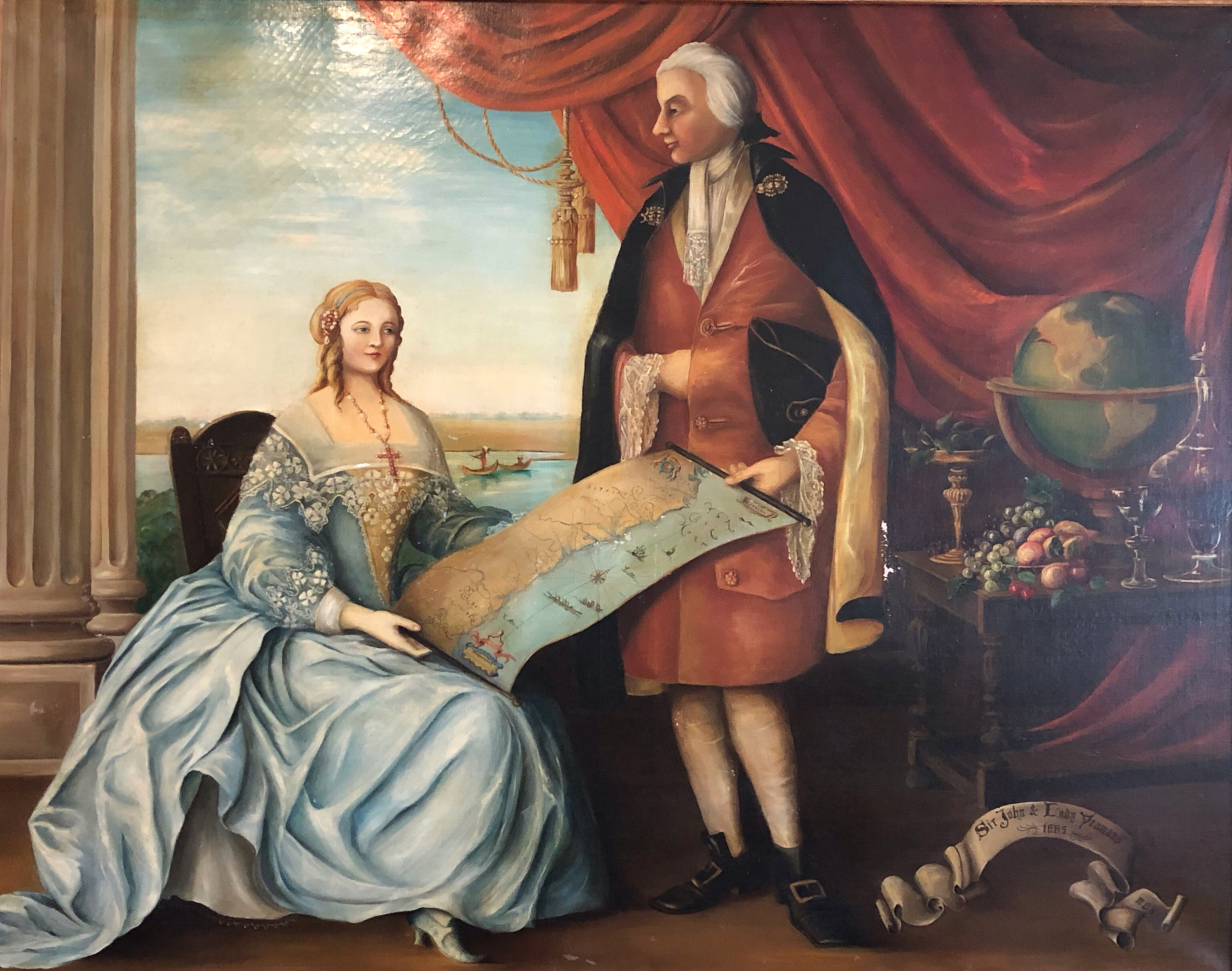 Painting of Sir John Yeamans and his wife circa 1665 est.